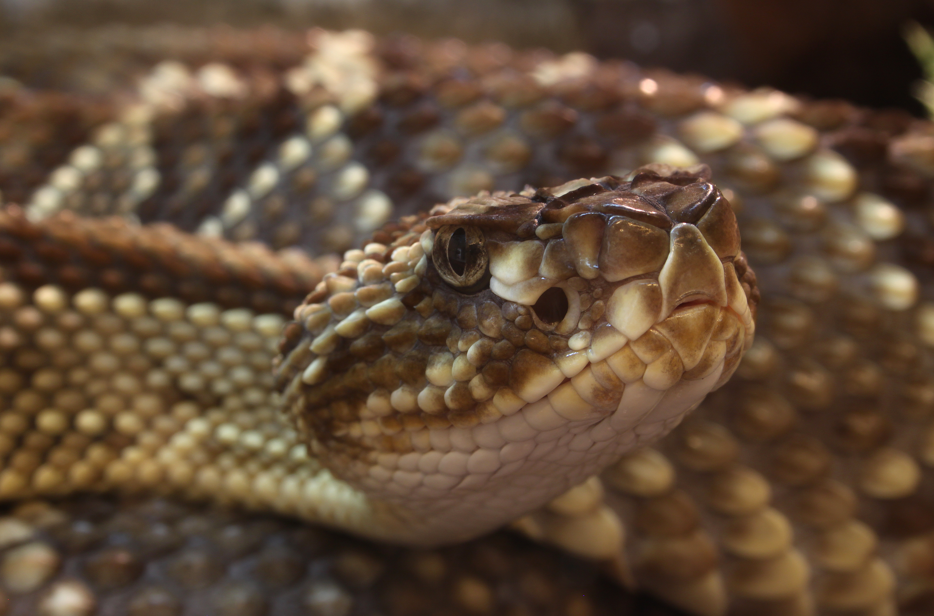 South American Rattlesnake or Tropical Rattlesnake, Crotalus durissus durissus, Family: Viperidae, Location: Germany, Scheidegg, Reptilienzoo